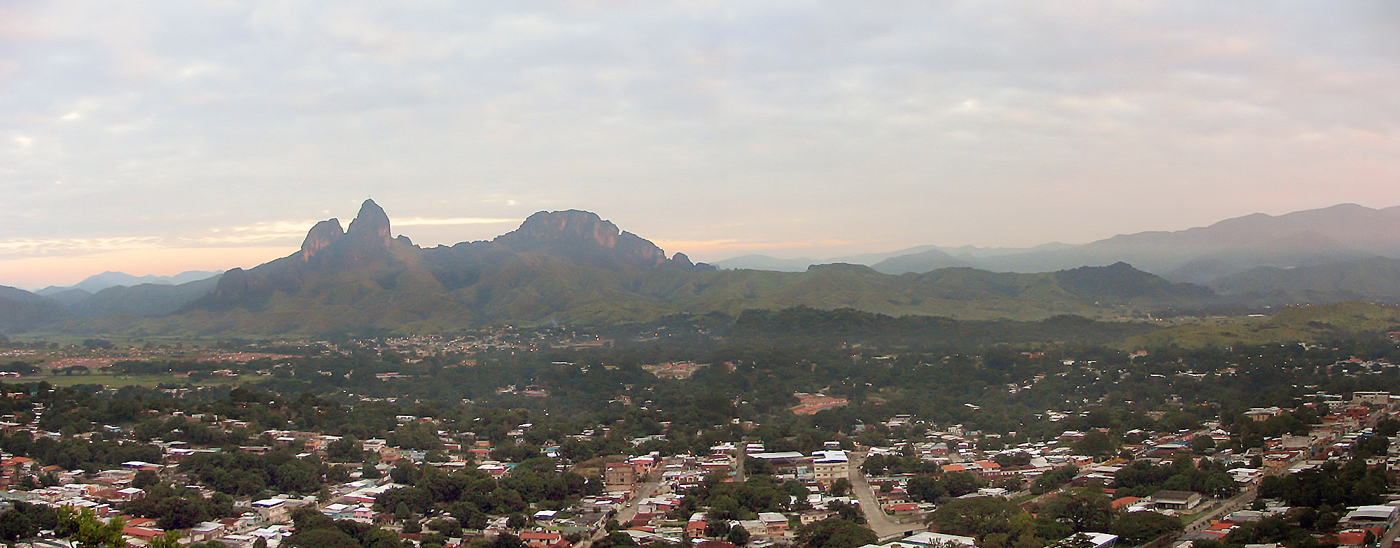 Panorama of San Juan de los Morros. Color corrected, and sharpened.